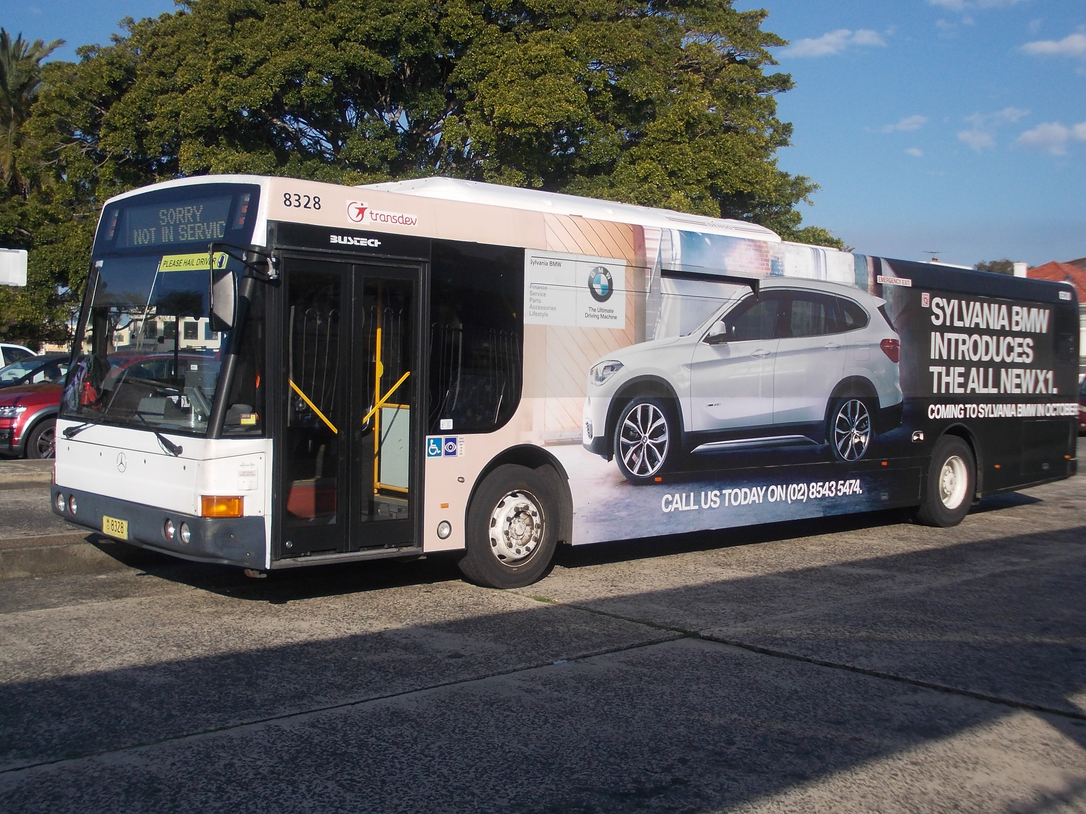 Transdev NSW m/o 3028 at Cronulla Station in August 2015